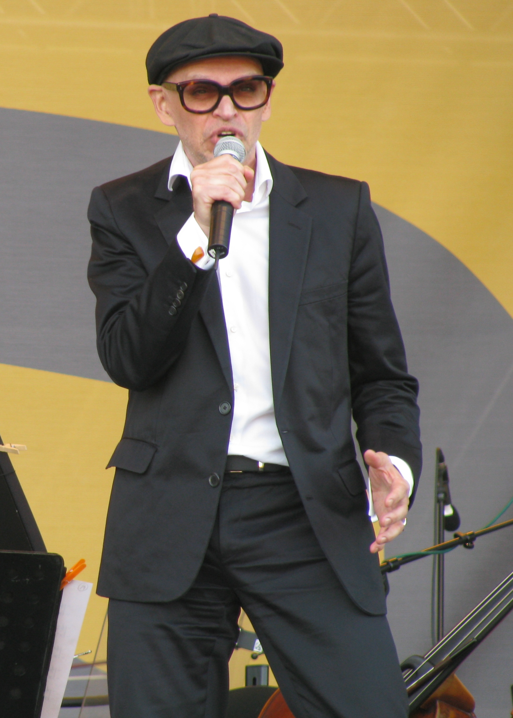 Jorma Uotinen in Pori 2008.